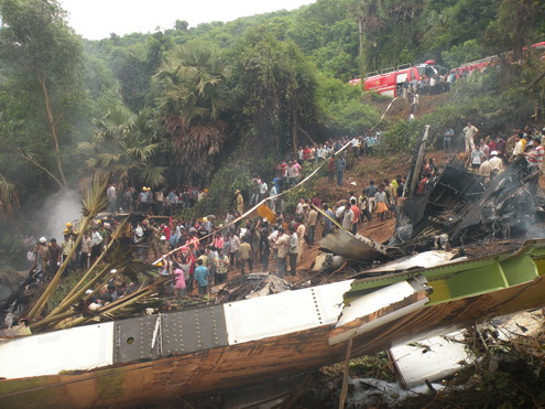 Bajpe plane crash site photo